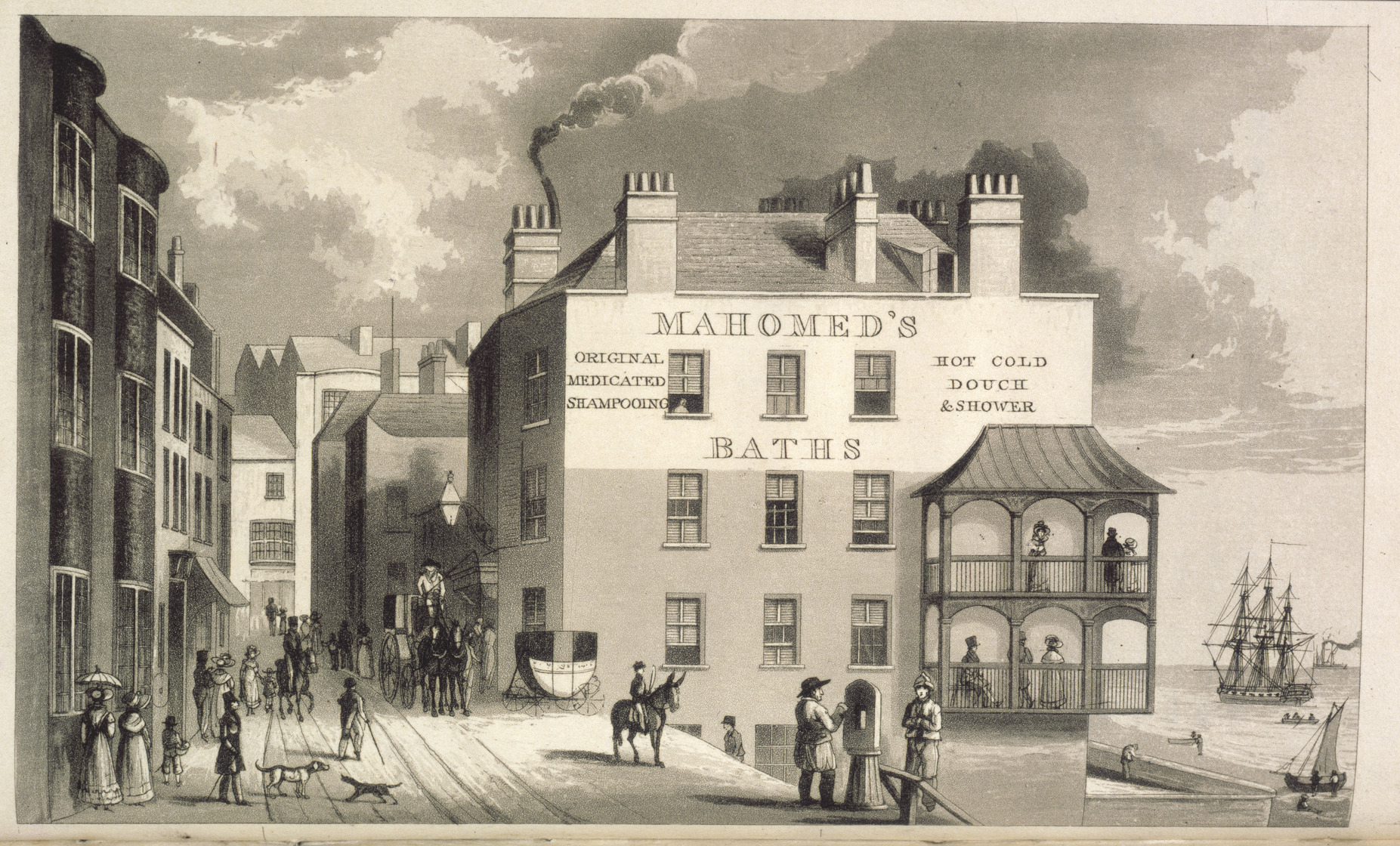 Mahomed's Baths A view of the business premises, in Brighton, of Sake Dean Mahomed.